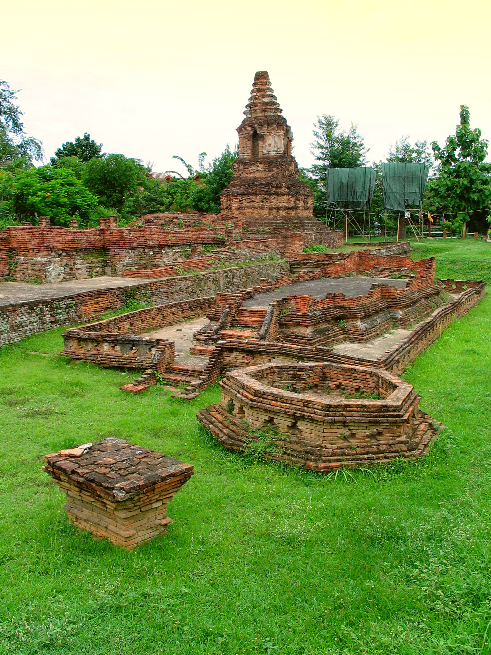 Wat Pu Pia, Wiang Kum Kam, Chiang Mai